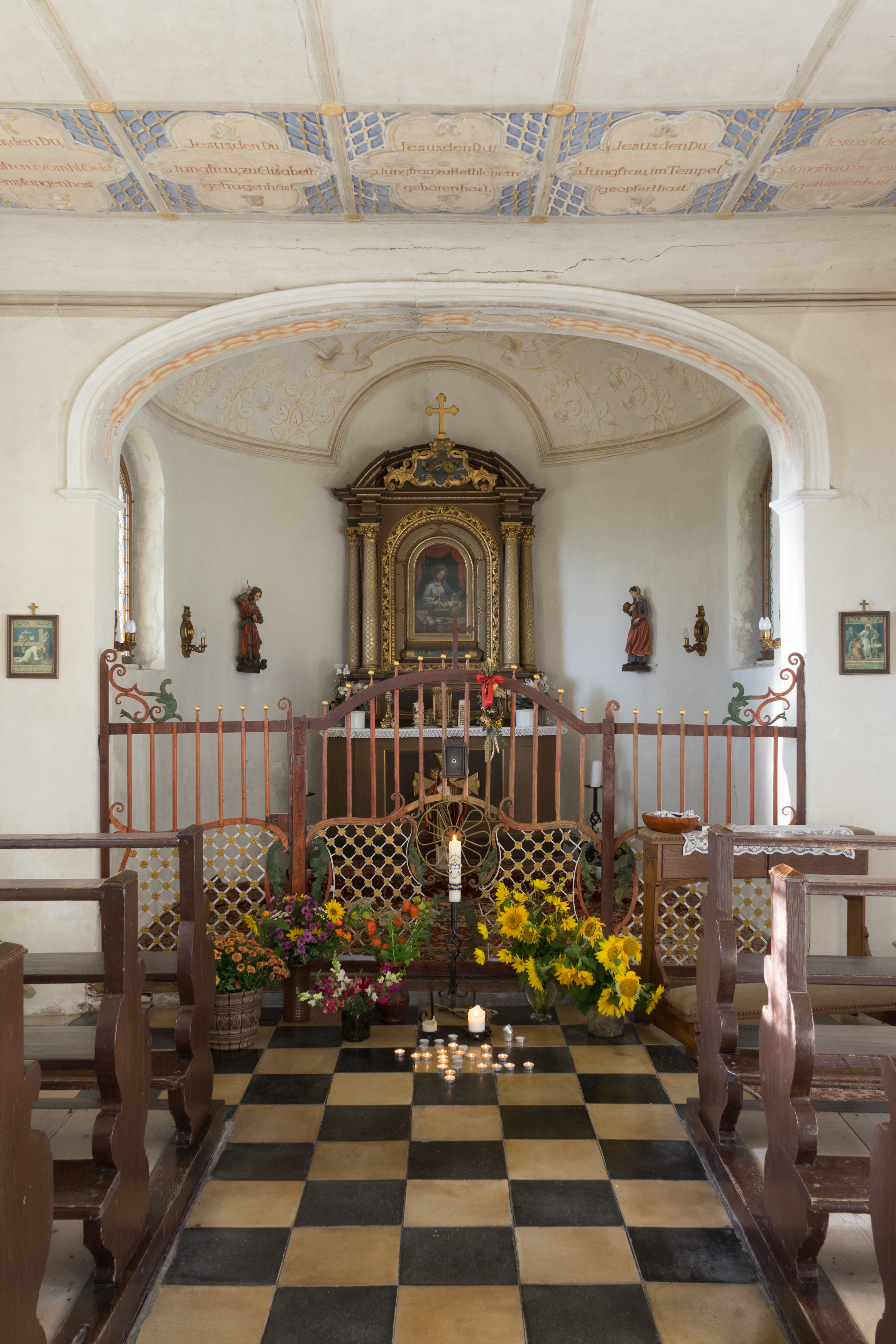 View into the apse of the St. Maria chapel in Babehausen, Bavria.